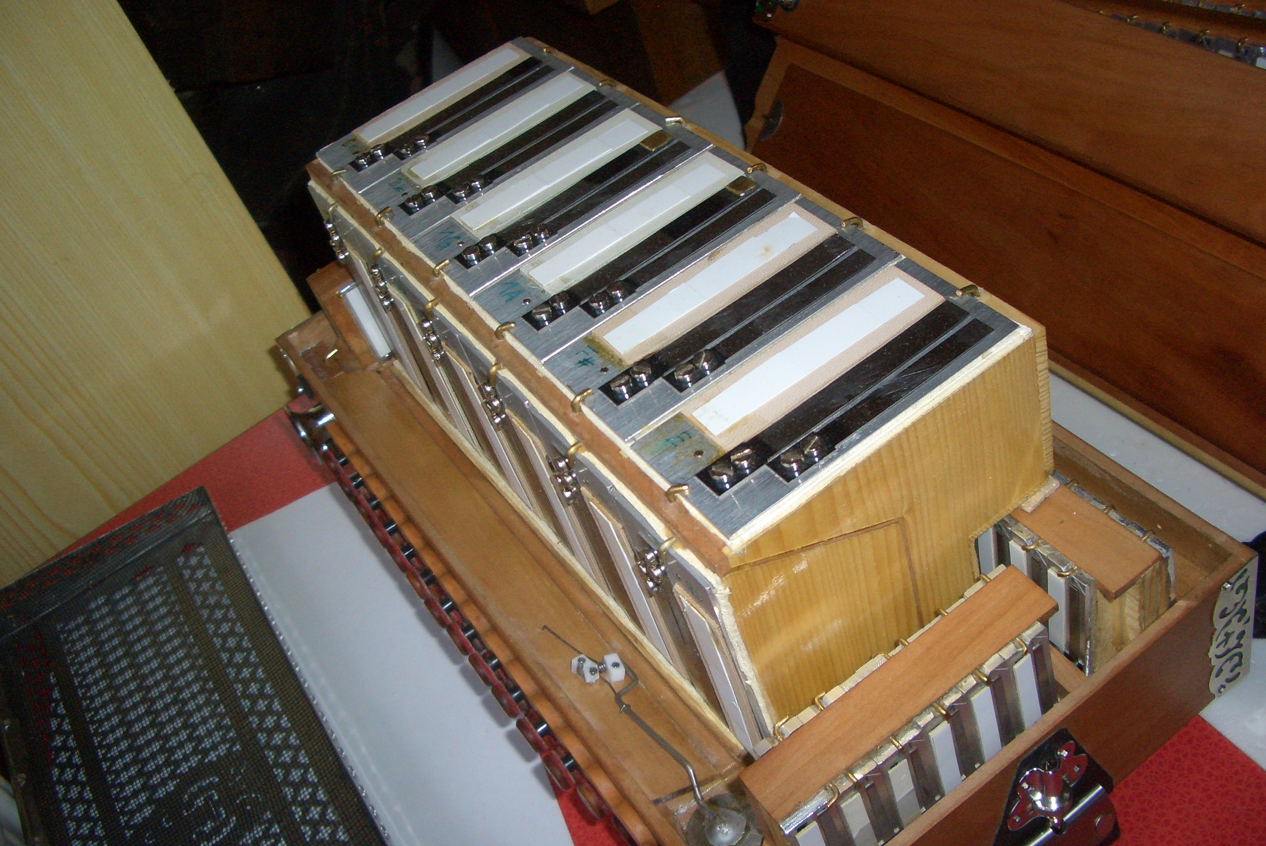 Basssection 12 double heliconreeds and 24 chords, demensions 38 x 19 cm Case.